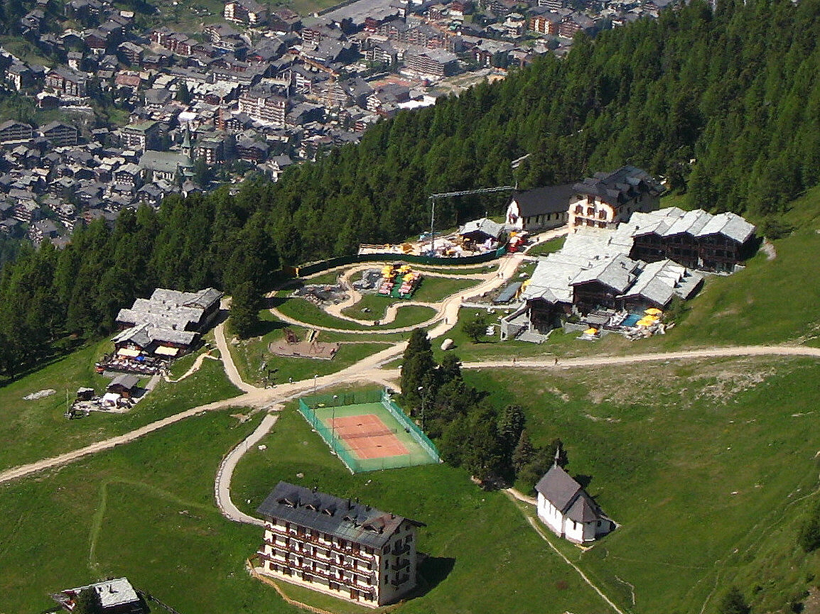 Zermatt and Riffelalp viewed from Riffelberg, Switzerland